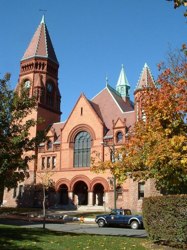 Fairhaven Town Hall, as seen from the grounds of the Millicent Library.